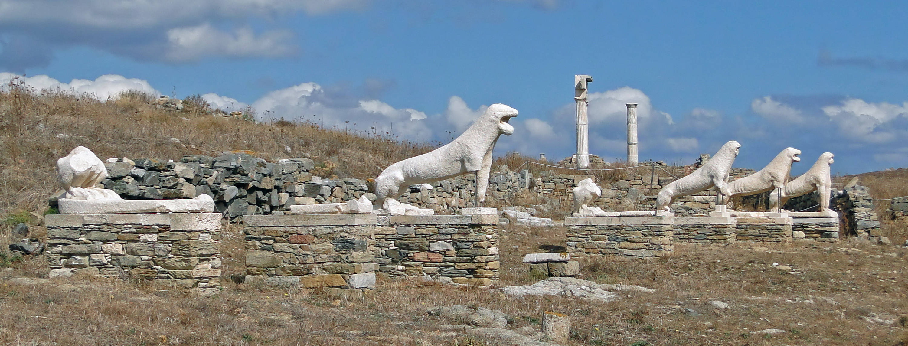 Terrace of the Lions in Delos, Greece